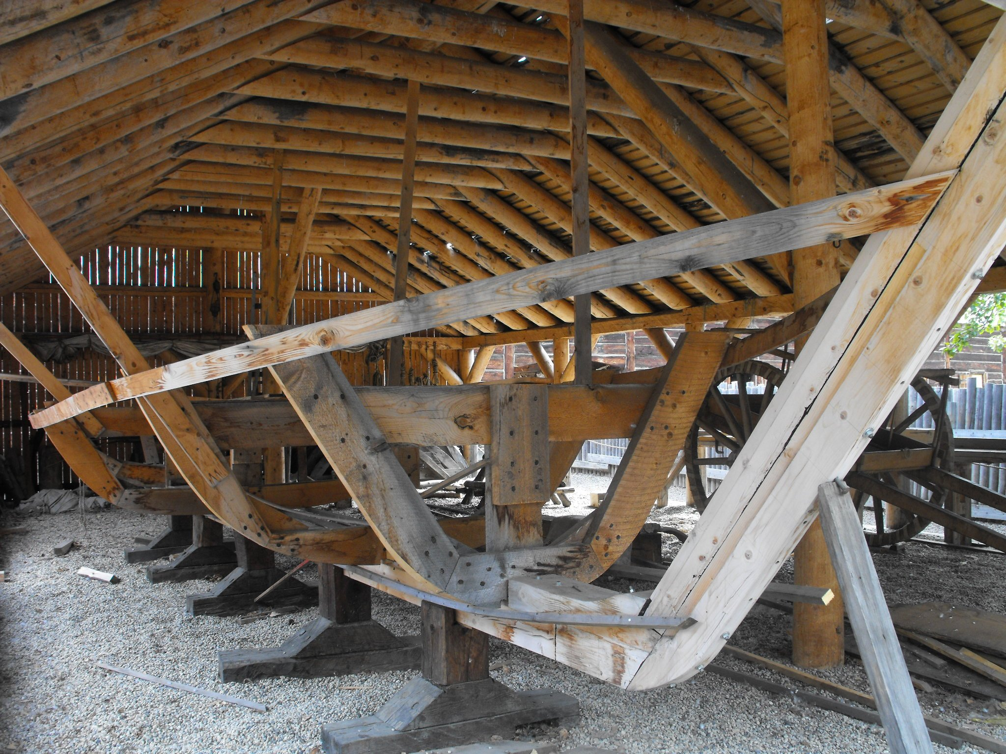 Replica York boat under construction, Fort Edmonton Park, Edmonton, Alberta, Canada